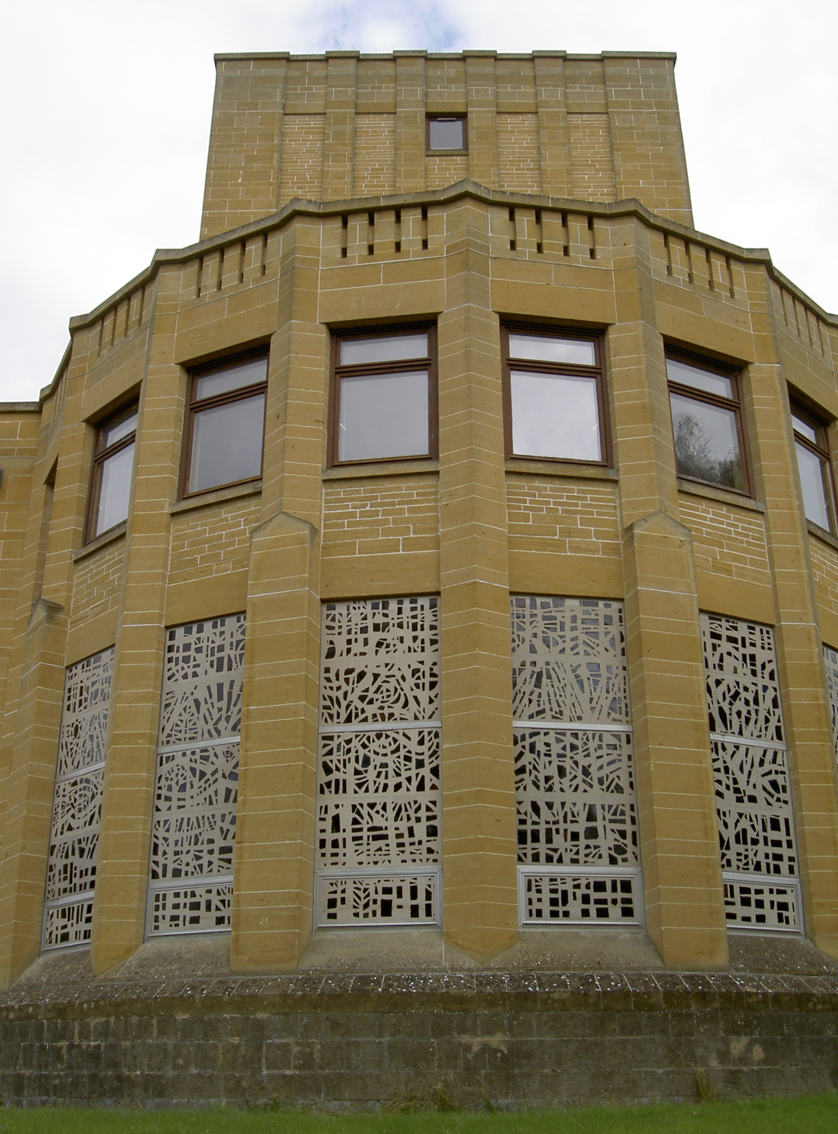 Stained glass of the West End